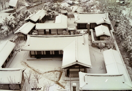 myungwon kmu